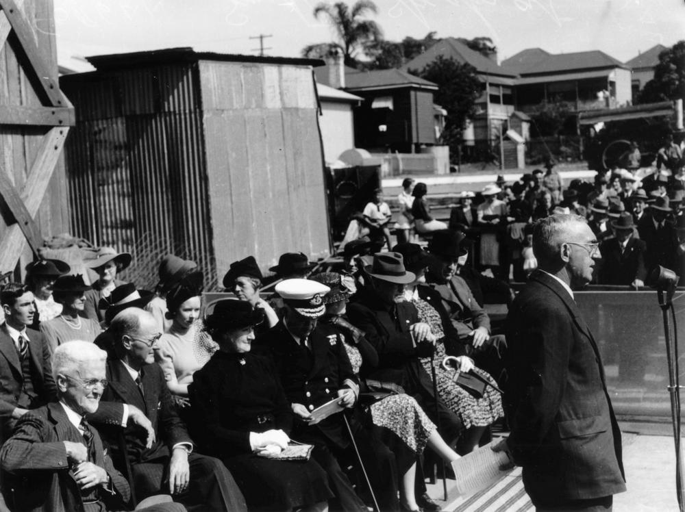 William Forgan Smith (Premier of Queensland) speaking at the launch of HMAS Townsville on 13 May 1941. (Description supplied with photograph.).